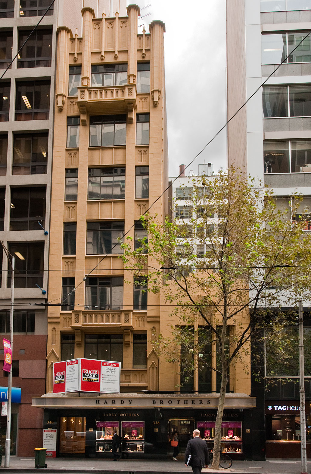 Hardy Brothers Building, 1931, 338 Collins Street, Melbourne. Architect: Marcus Barlow